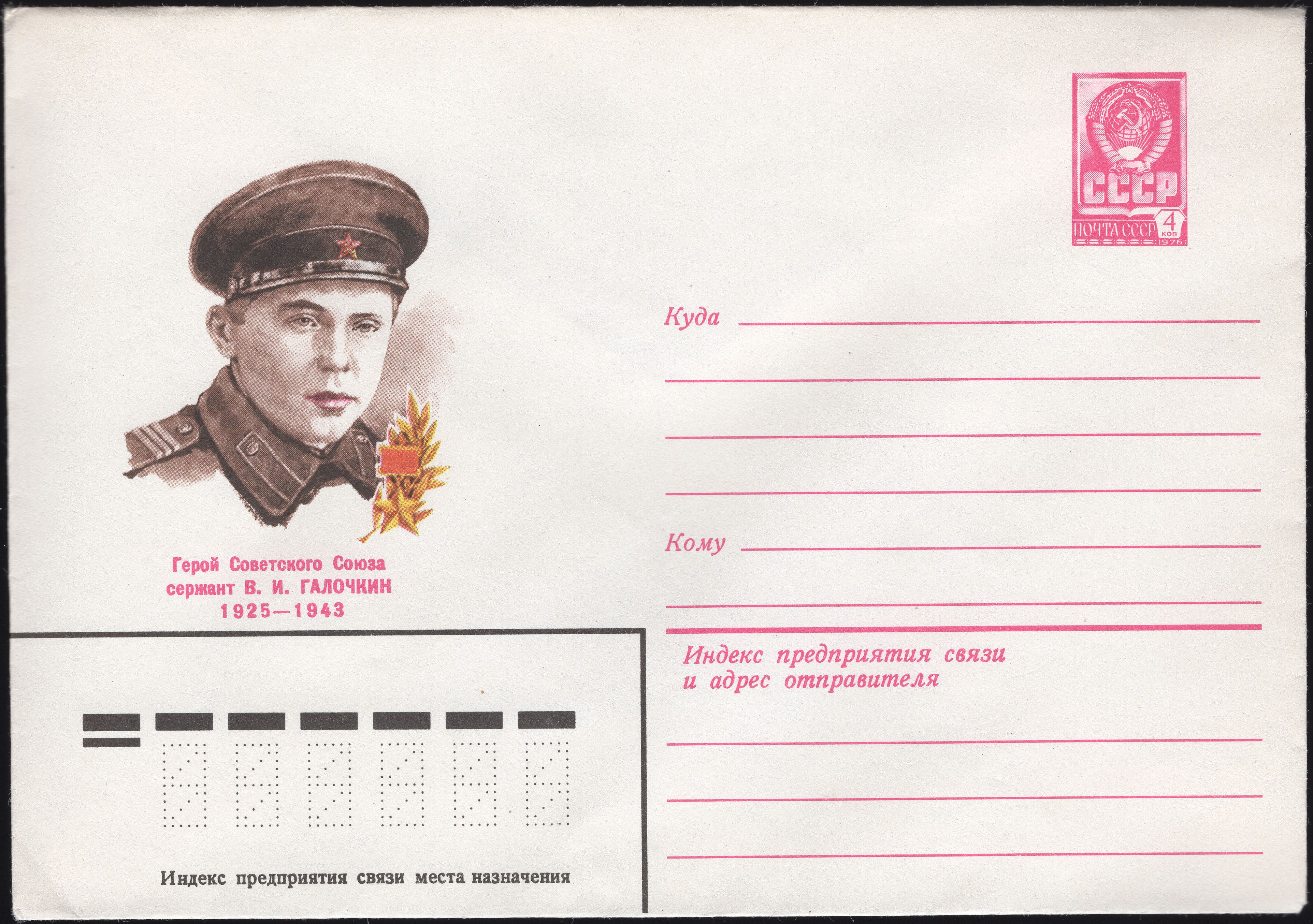 Hero of the Soviet Union Sergeant Viktor Galochkin. 1925-1943. Series: Heroes of the Soviet Union. Artist Peter Bendel.